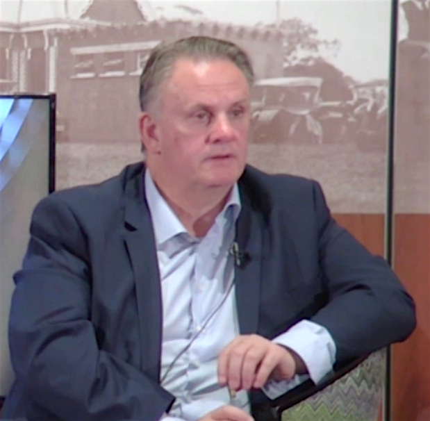 Australian politician Mark Latham at the 2018 Church and State Summit